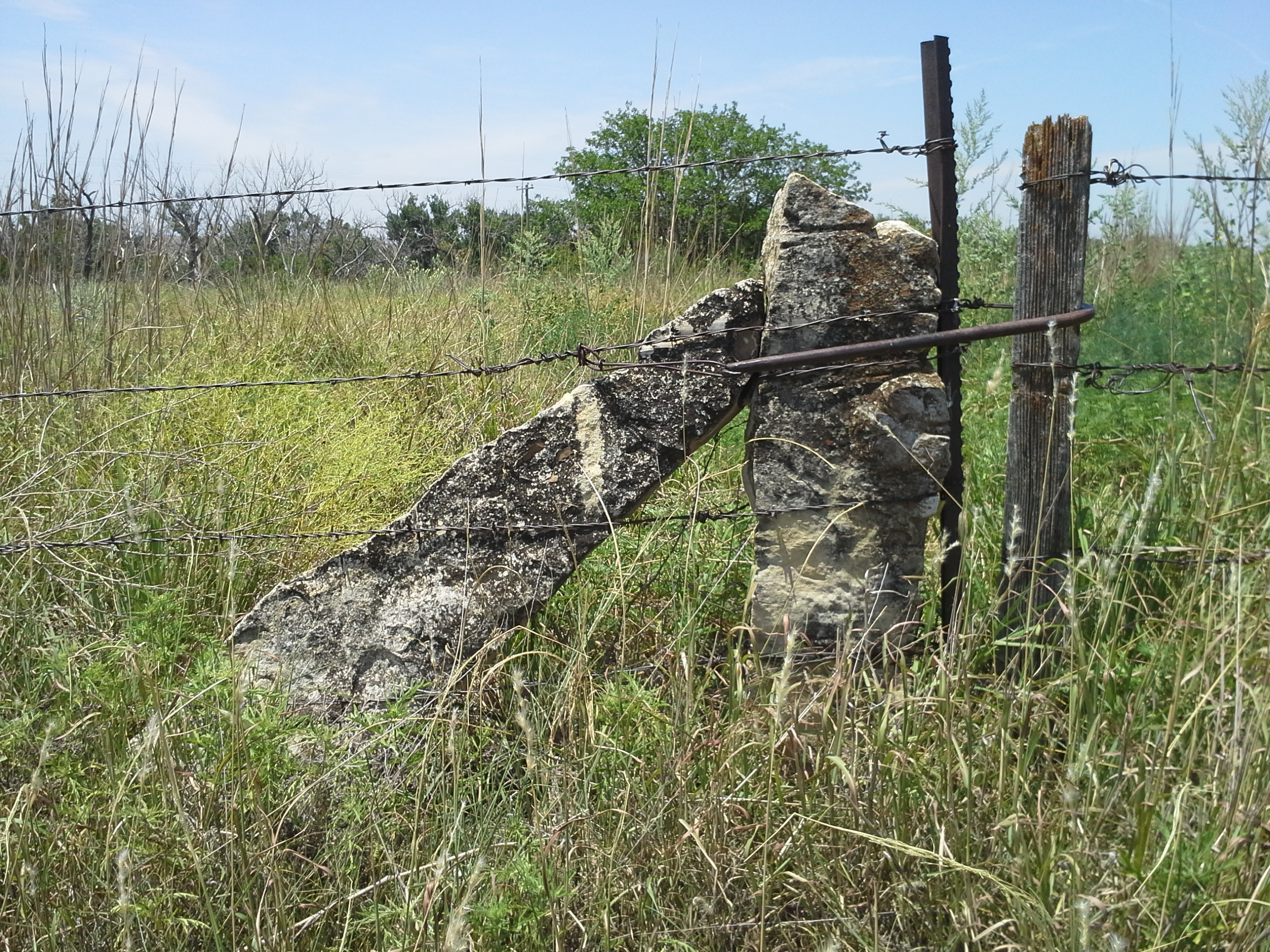 Stone end post and gate.